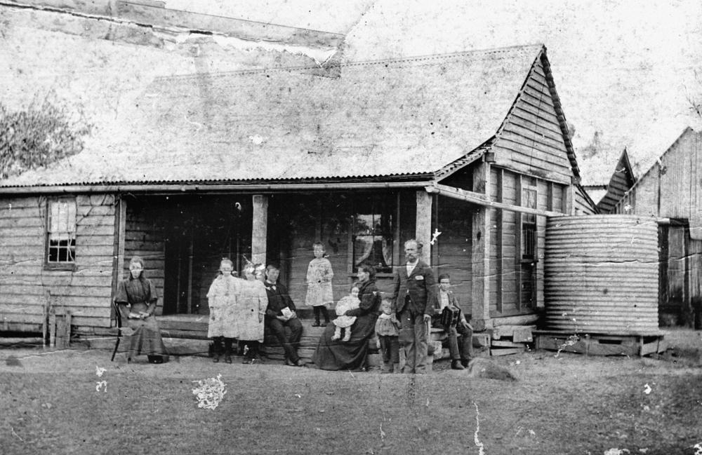 Moloney family outside their home at Bromelton, ca. 1897 Michael and Catherine (nee Colban) Moloney and their children are pictured outside their timber home.